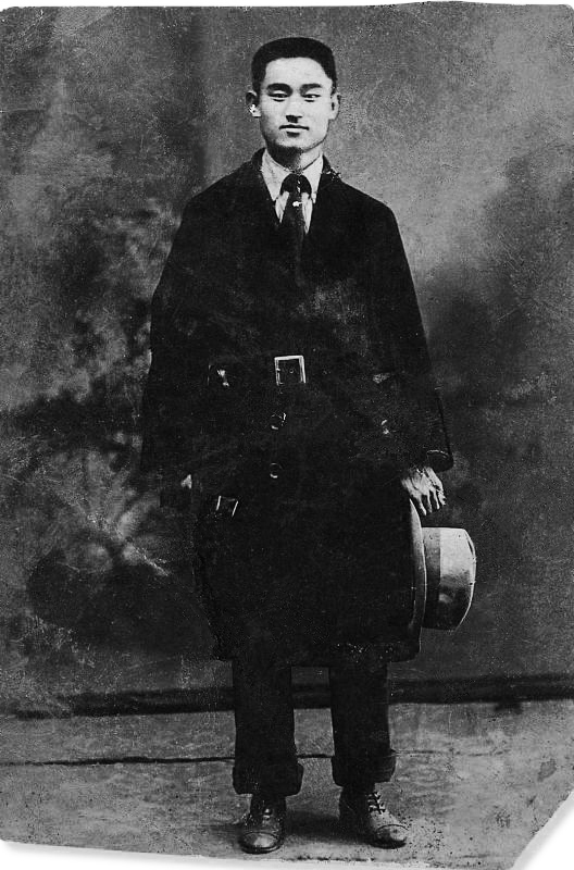 Wang Shouhua